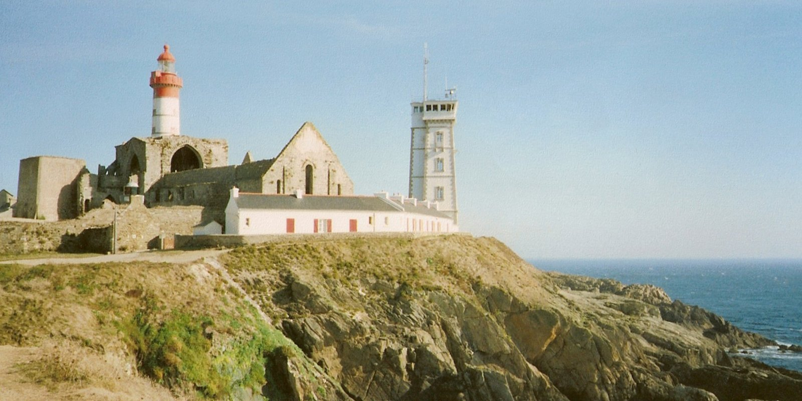 Saint Matthew abbey, Plougonvelen, Finistère, Brittany .